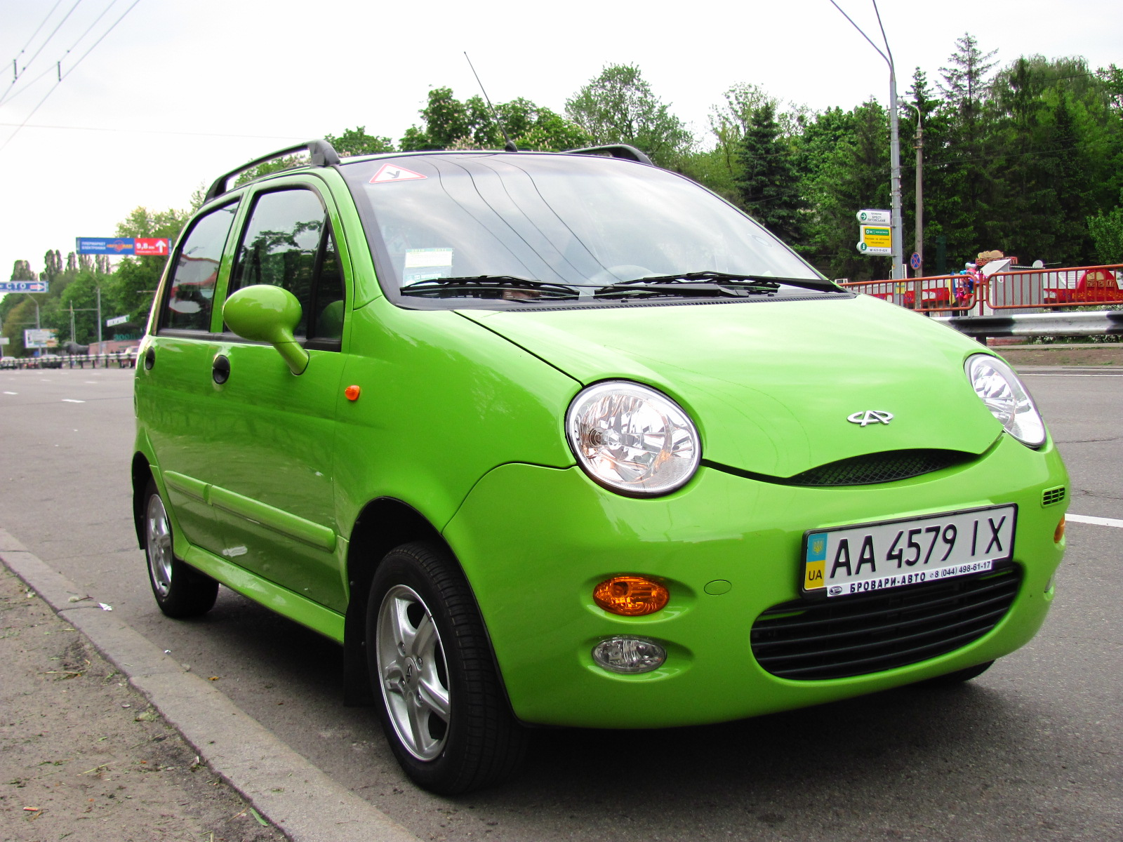 Chery QQ automobile in Ukraine.